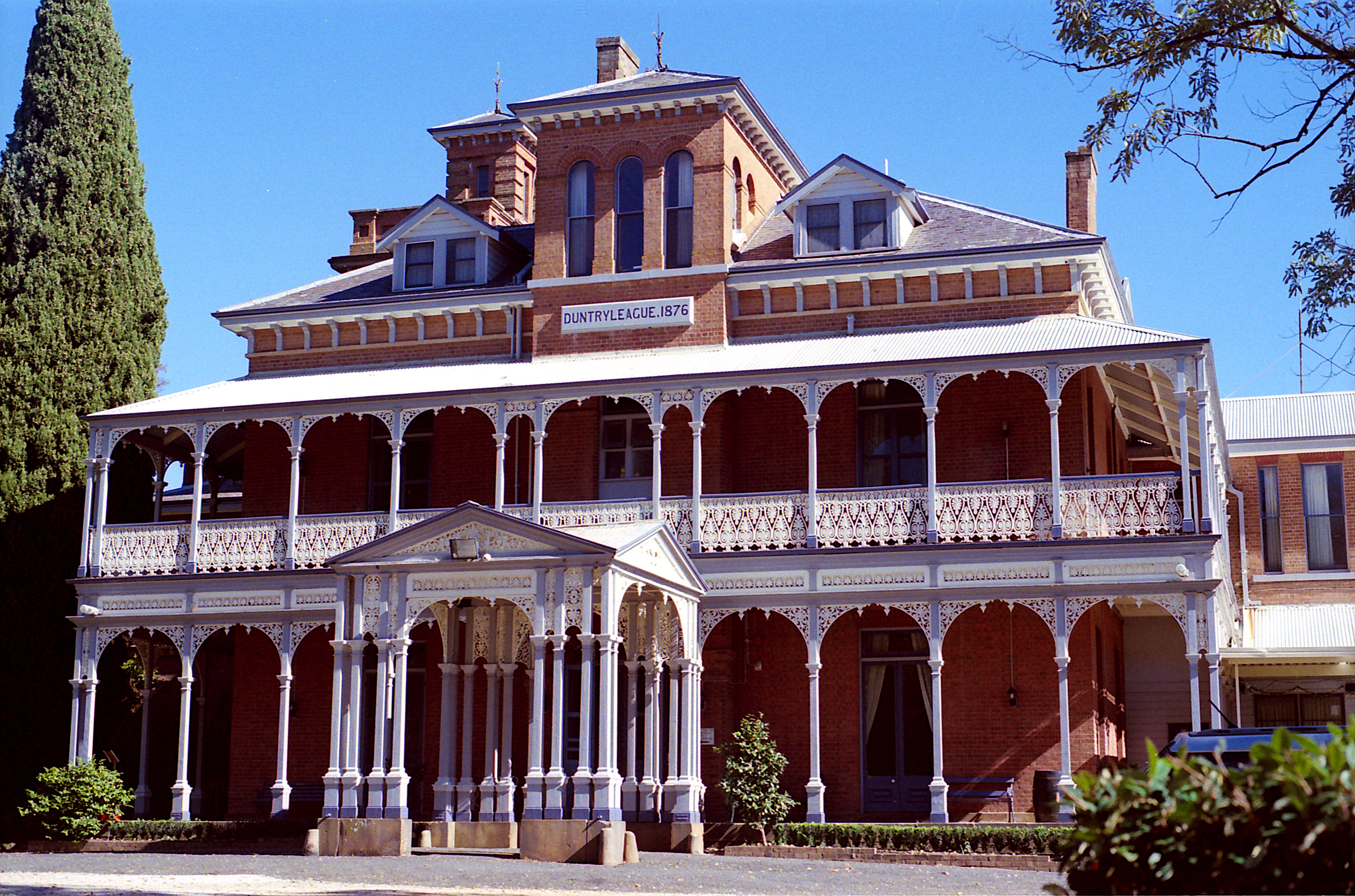 Old golf club and guesthouse in Orange NSW. Established 1876